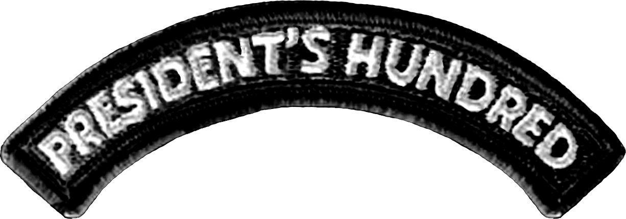 Image of the U.S. Coast Guard's President's Hundred Tab